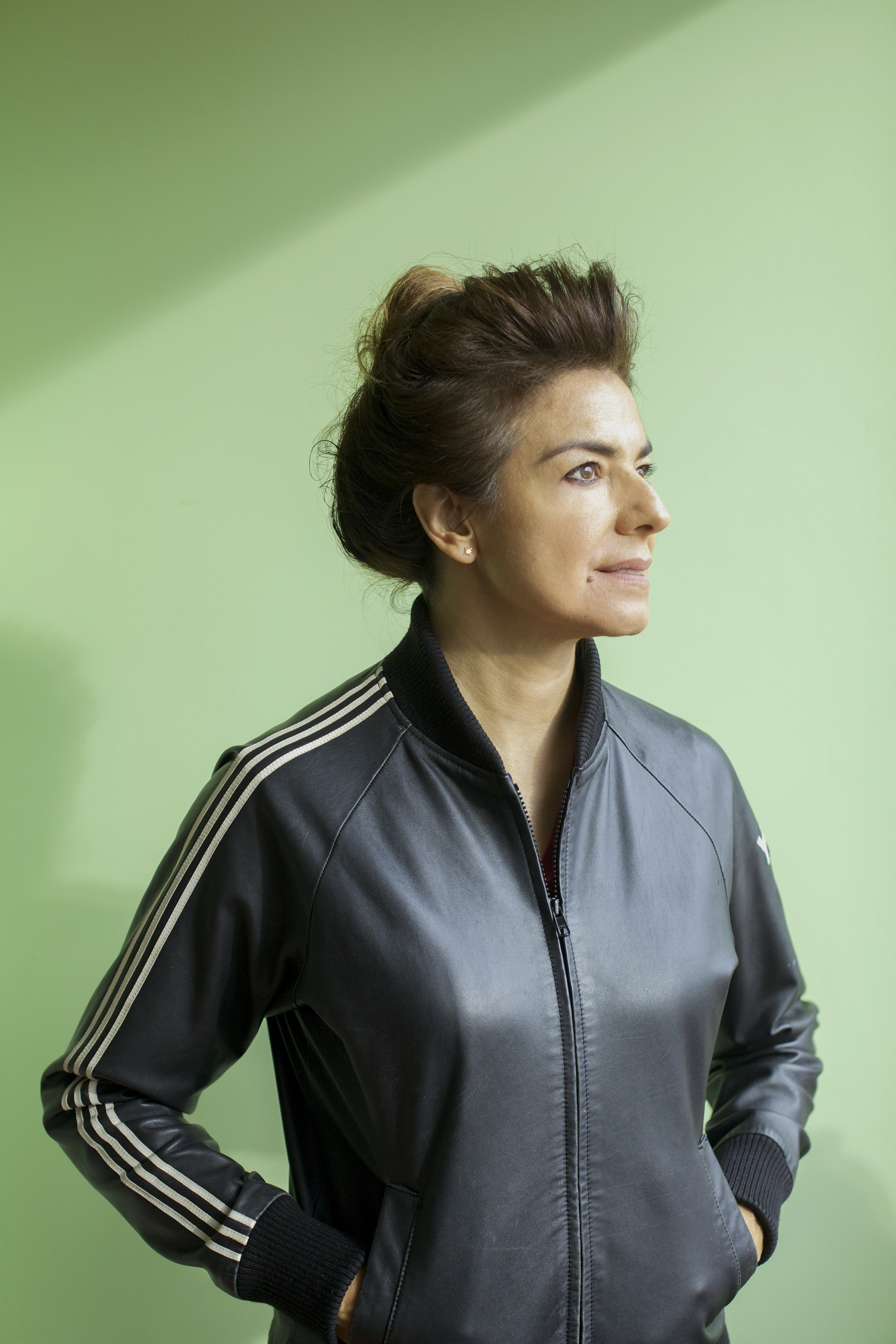 Alicia Framis portrait image, taken by Elsa Hanneke for Alicia Framis